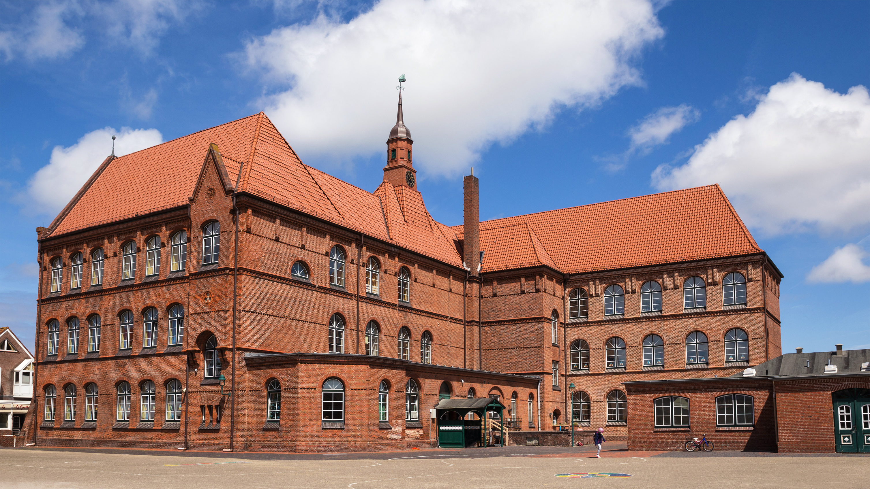 Norderney, elementary school